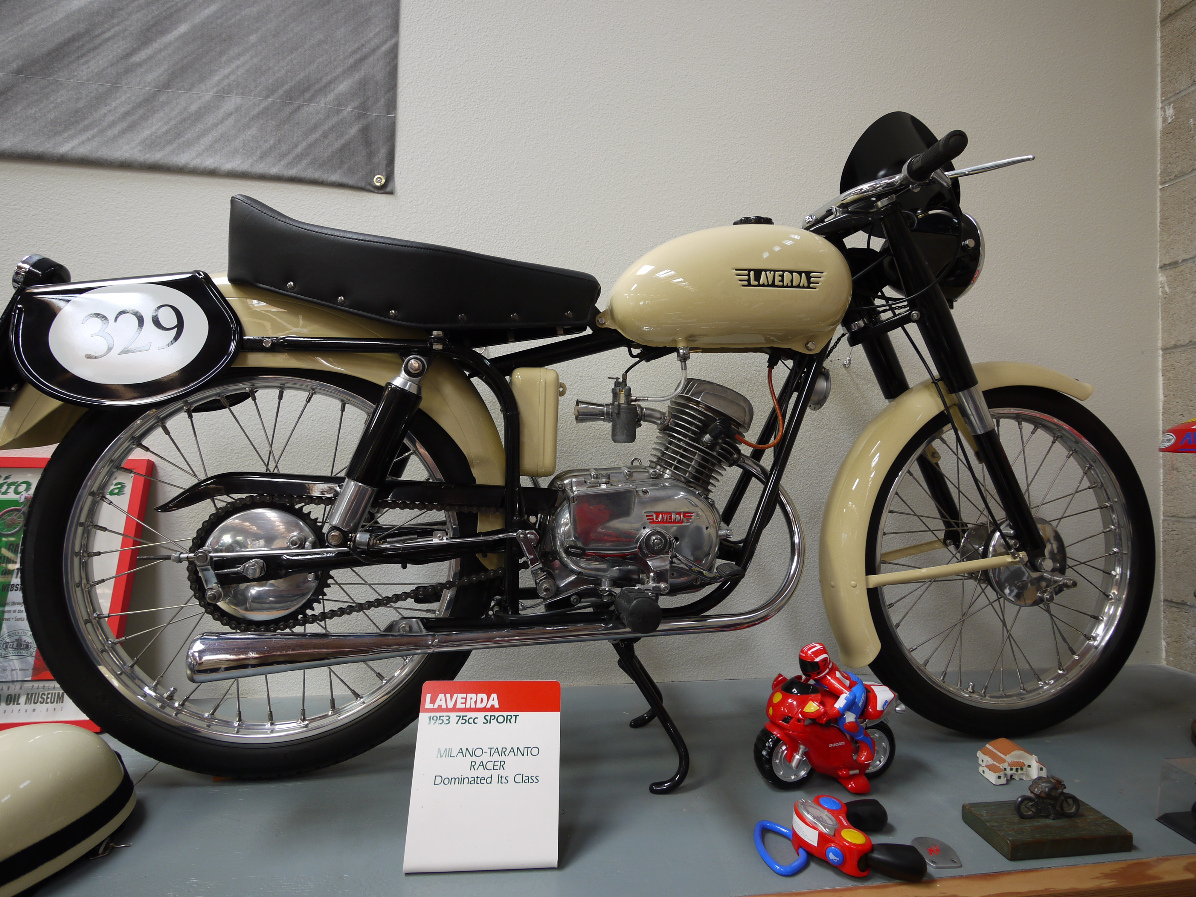 Laverda 75 Sport, 1953, MSDS